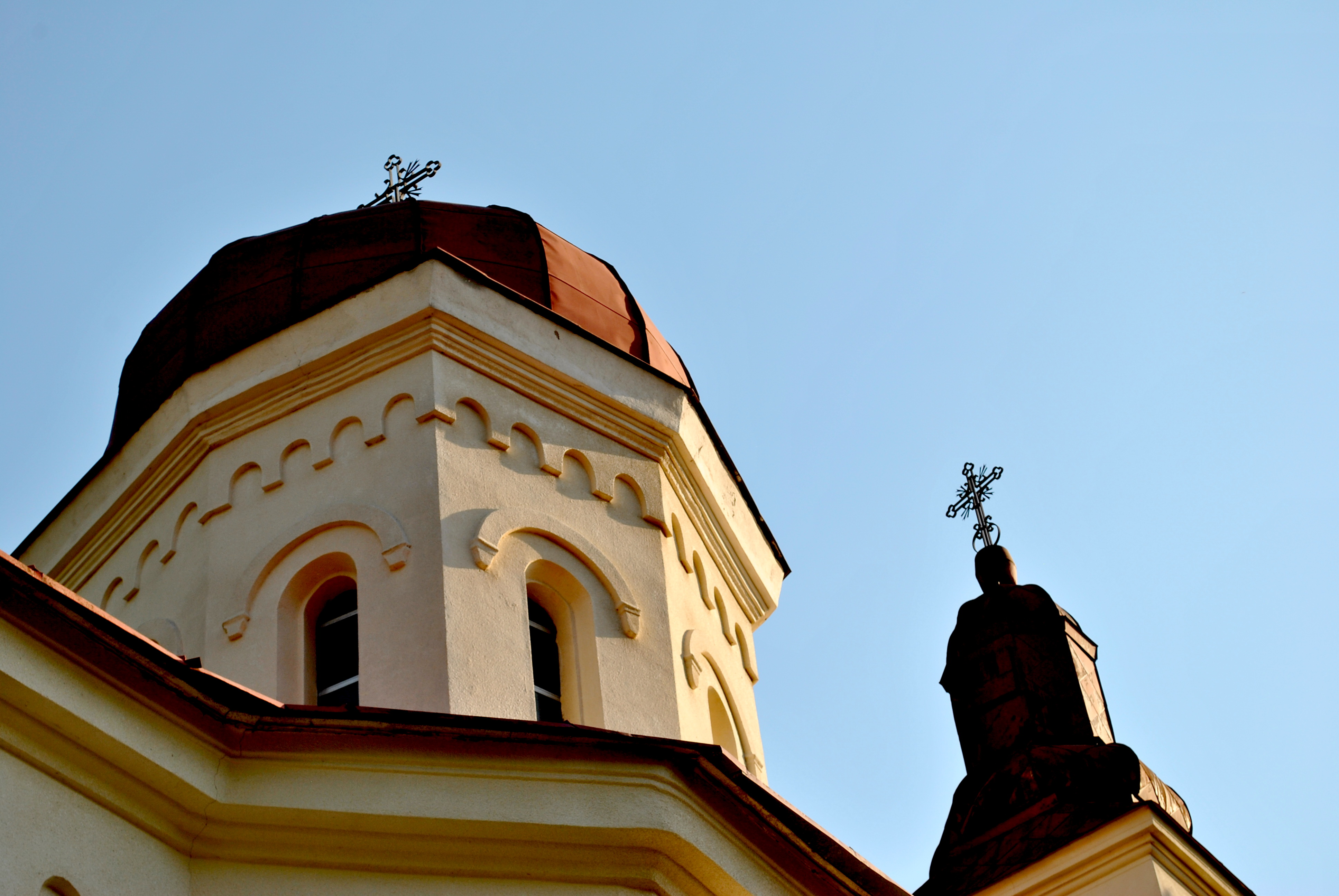 СК 664